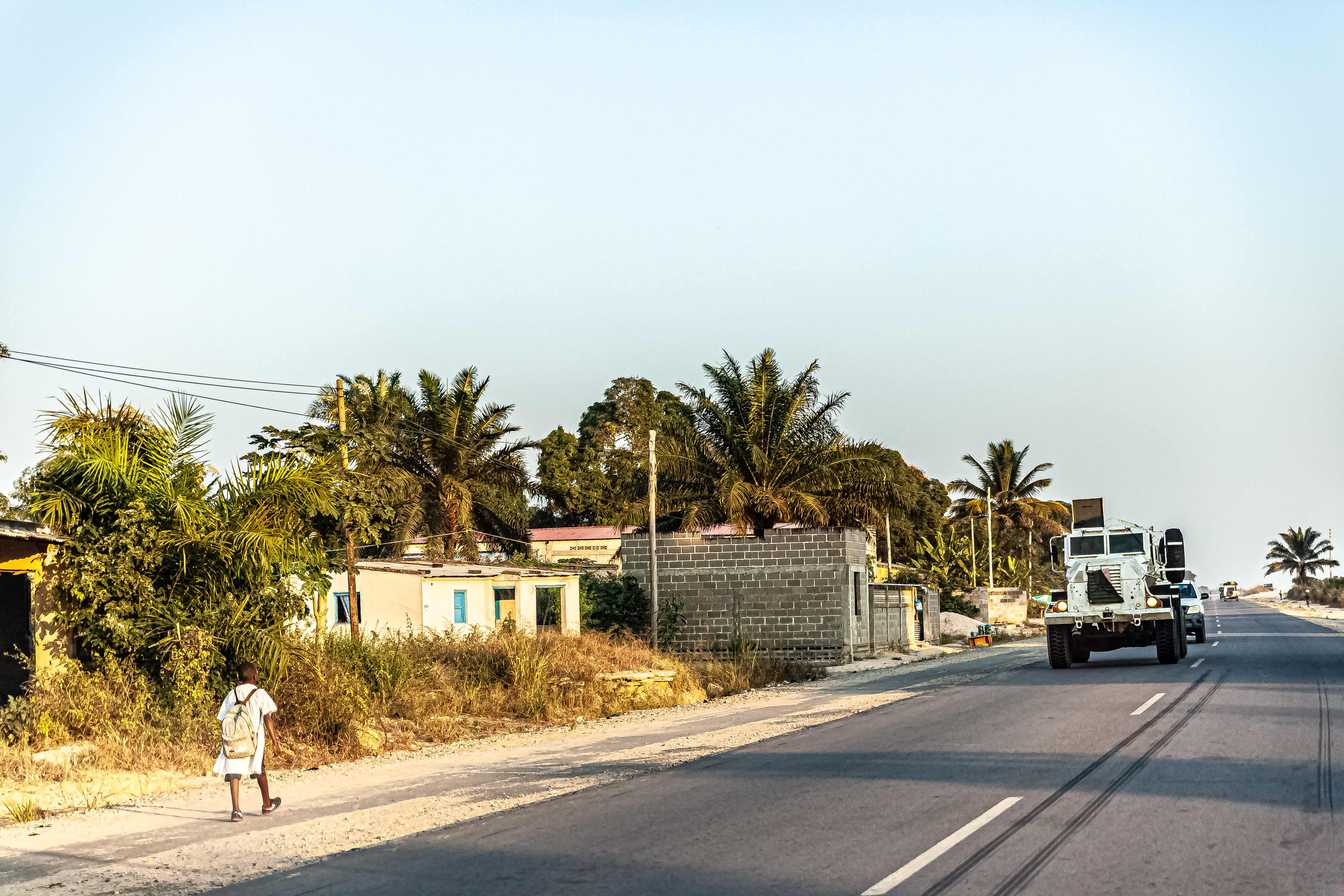 a armor personal vehicle n the move in Angola soyo This is an image with the theme "Africa on the Move or Transport" from: Angola